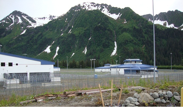 Buildings and the prisons recreational yard, seen beyond the fenced perimeter - Spring Creek Correctional Center